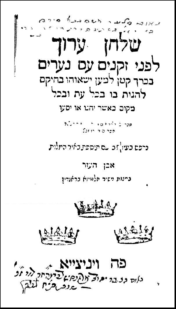 Title Page of Shulchan Aruch, written by Karo Yosef and published in Venice in 1574.